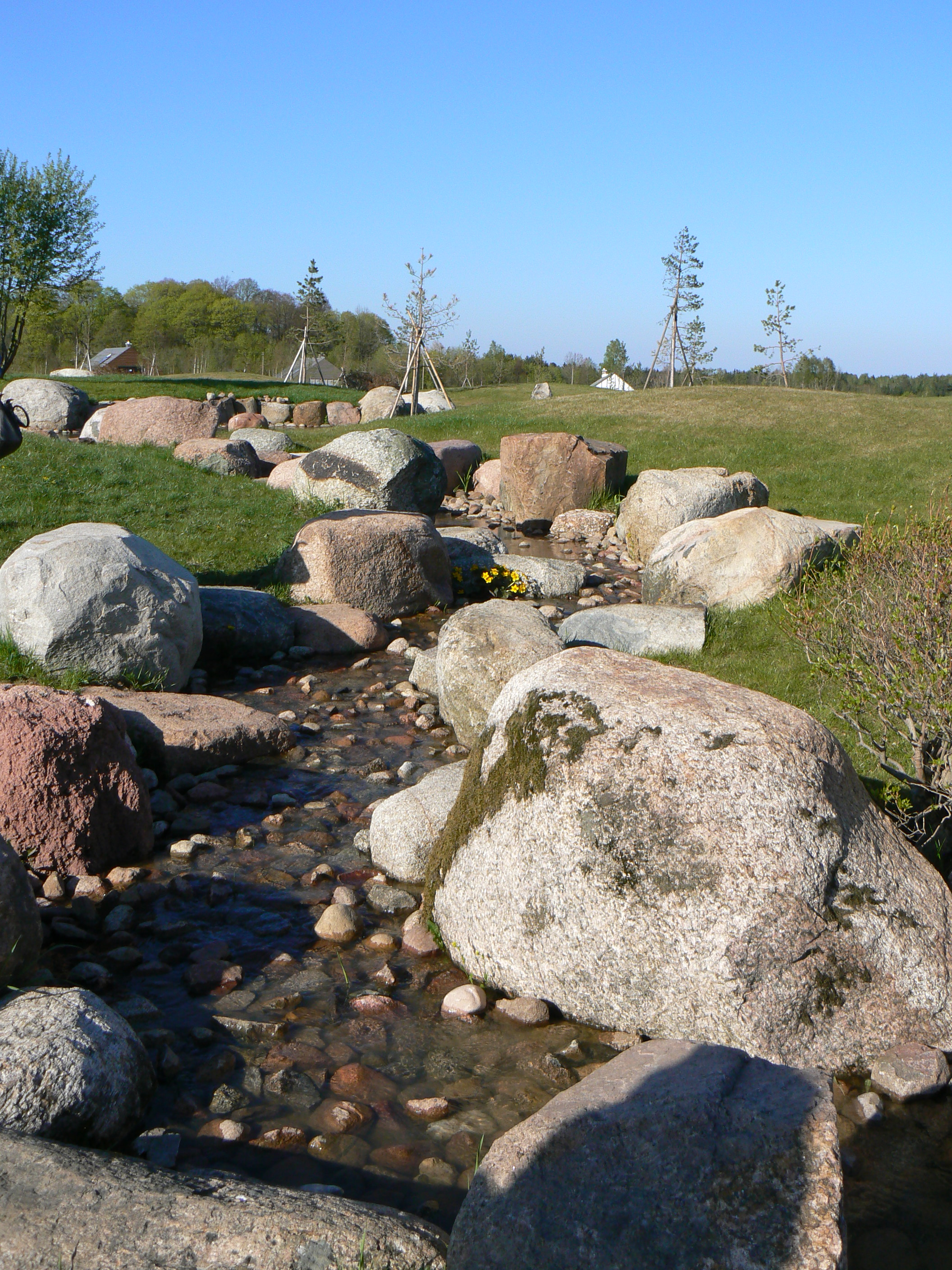 Rivulet in Japan Garden of Mažučiai in Lithuania.